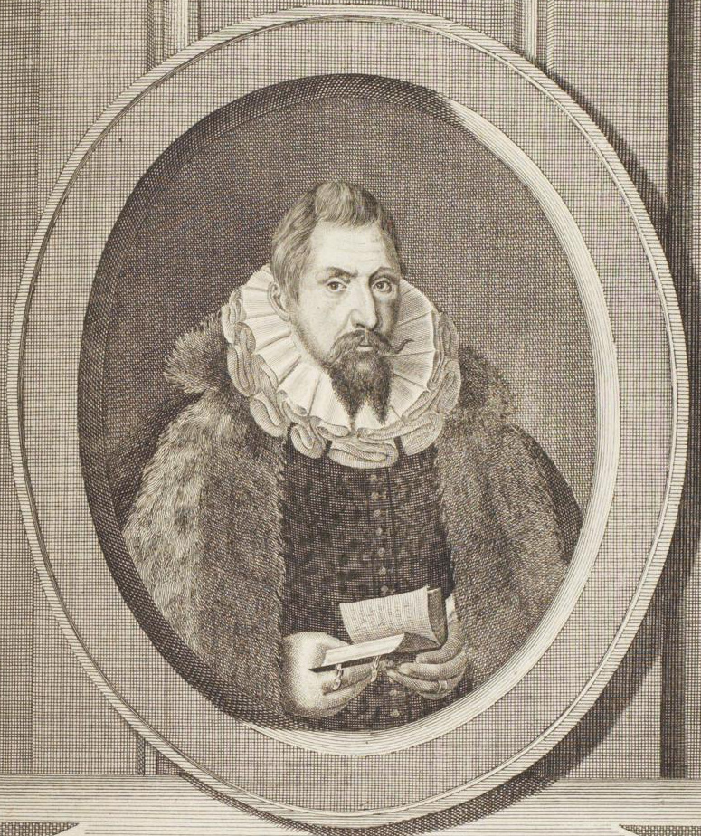 Engraved portrait of Johannes Posselius (der Jüngere), in: in: Monumenta inedita rerum Germanicarum praecipue Cimbriacarum et Megapolensium : quibus varia antiquitatum, historiarum, legum iuriumque Germaniae, speciatim Holsatiae et Megapoleos vicinarumque regionum argumenta illustrantur, supplentur et stabiliuntur ; cum tabulis aeri incisis / e codicibus ... studuit ... et cum praefatione instruxit Ernestus Joachimus de Westphalen .. Band 3, Lipsiae: Martin 1741